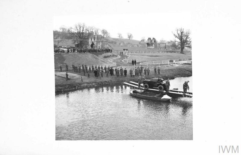 From the rear of the photo: The prime minister watching an armoured car being conveyed across the River Derwent by raft. In the background are the ruins of Kirkham Abbey. Secret: 8th Corps Malton, Harrogate, Otley Area Taken by Capt. Horton